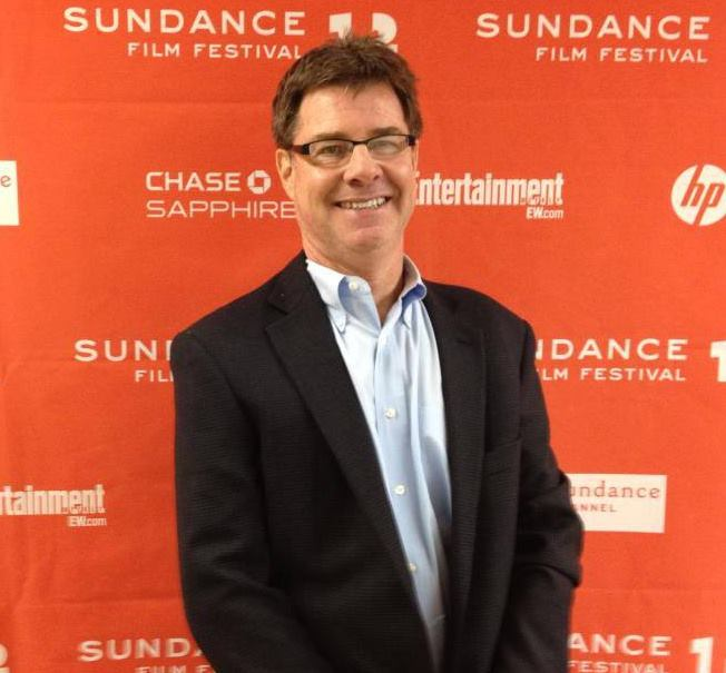 Dr. Richard Lehman at the 2013 Sundance Film Festival